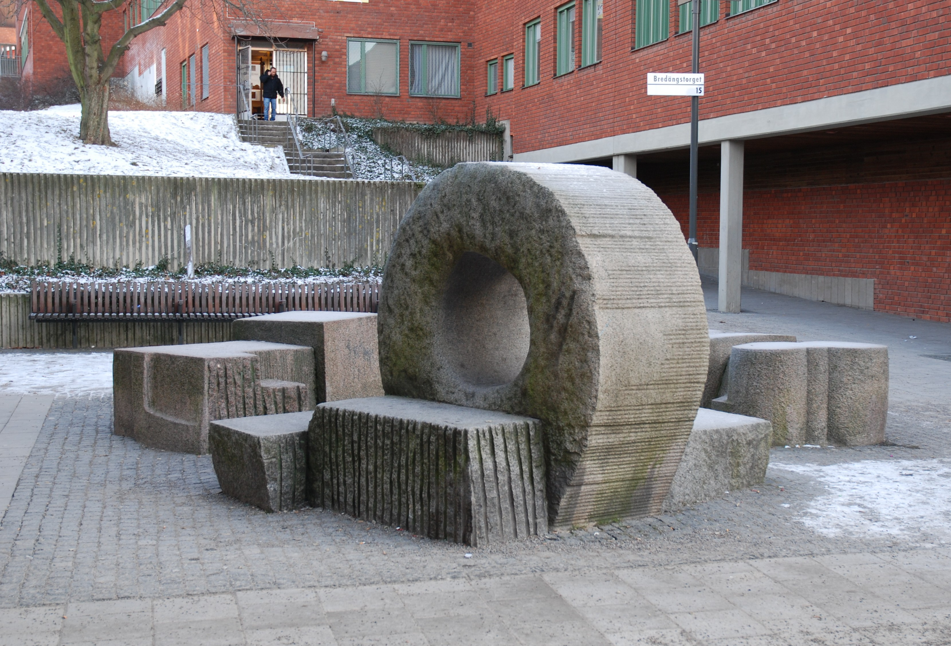 Erik Höglund´s Two animals and a tool (1966), granite, Bredäng, Stockholm, Sweden